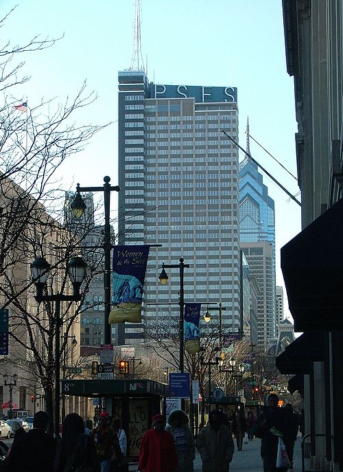 PSFS Building (Philadelphia Savings Fund Society)